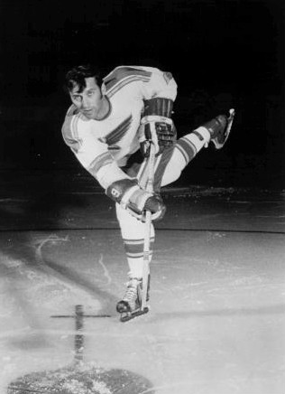 Photo of Frank St. Marseille as a member of the St. Louis Blues.